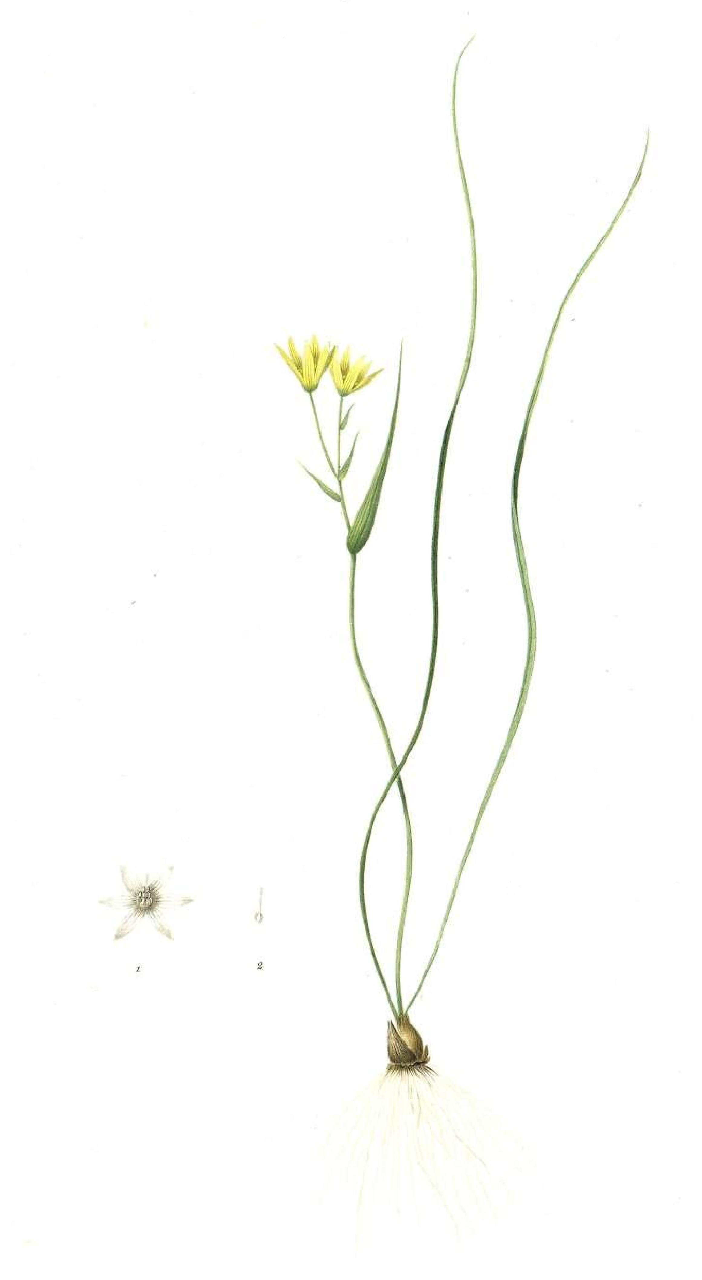 Detail of Gagea spathacea (Orig. Ornithogalum spathaceum)